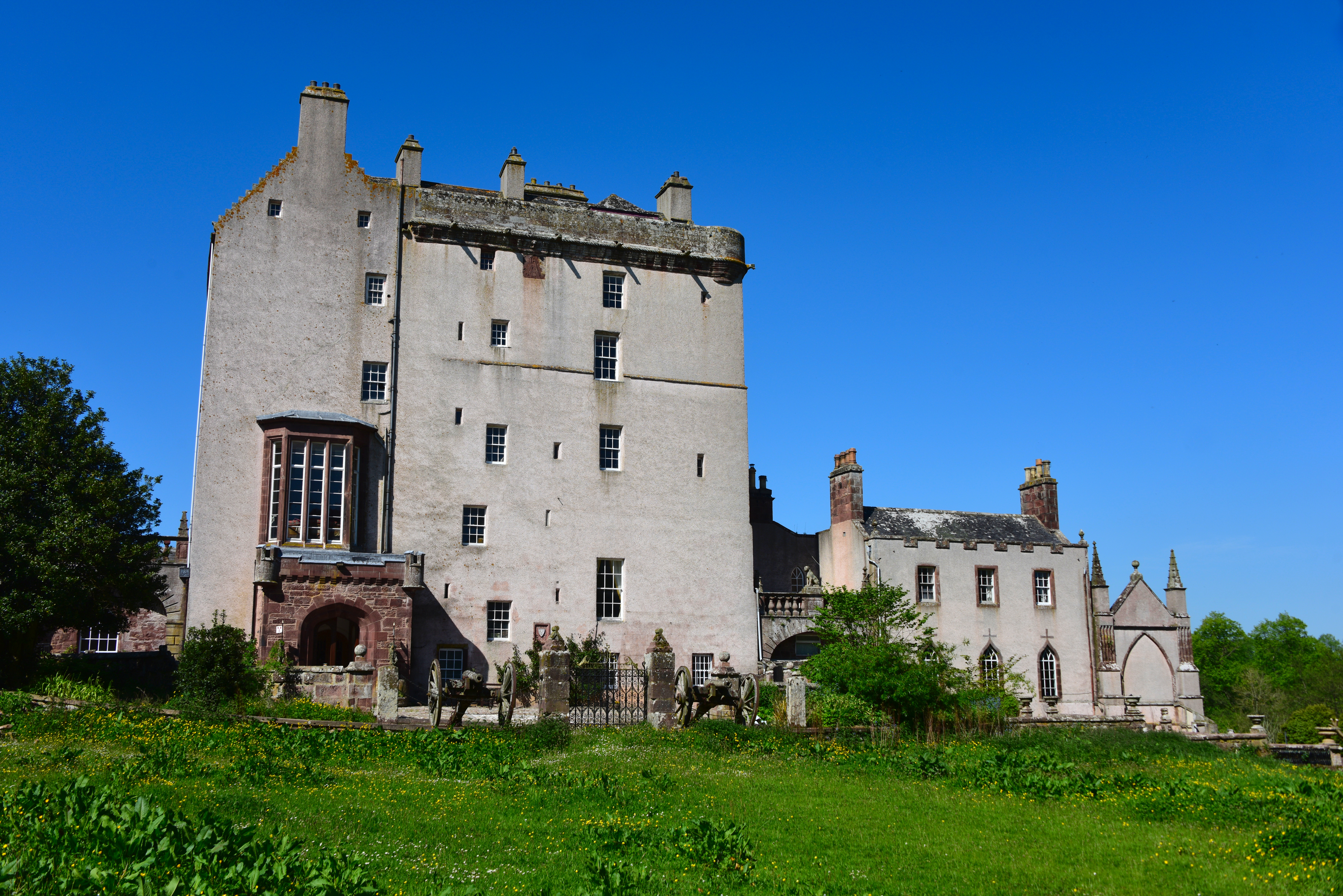 Delgatie Castle, an Elizabethan castle in Aberdeenshire.